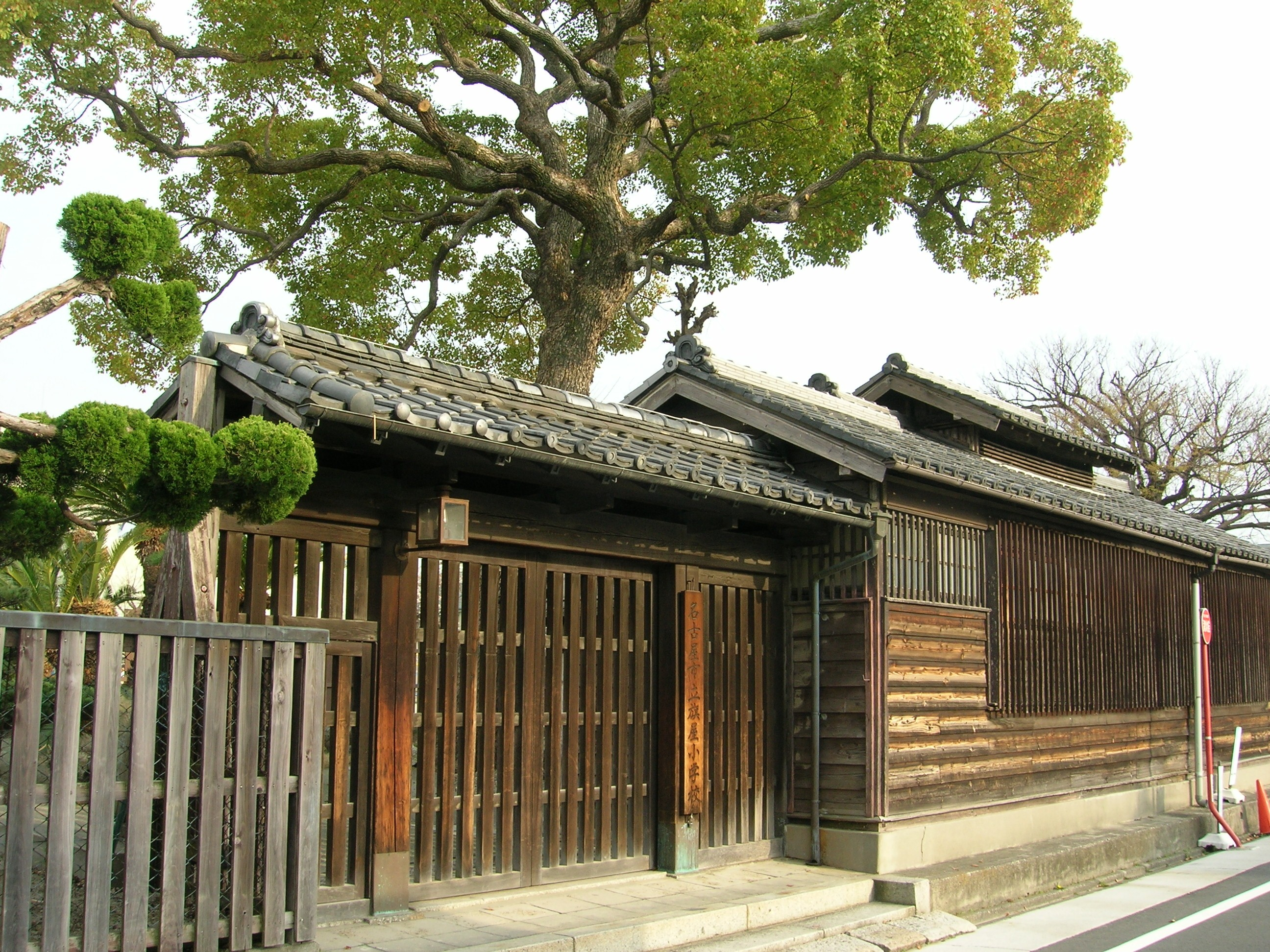 Hataya Elementary school - Nagaya-mon (Samurai Residence style gate). build 1909. Loc: Atsuta-ku, Nagoya city, Aichi Prefecture, Japan. 名古屋市立旗屋小学校武家屋敷門。 撮影場所 愛知県名古屋市熱田区